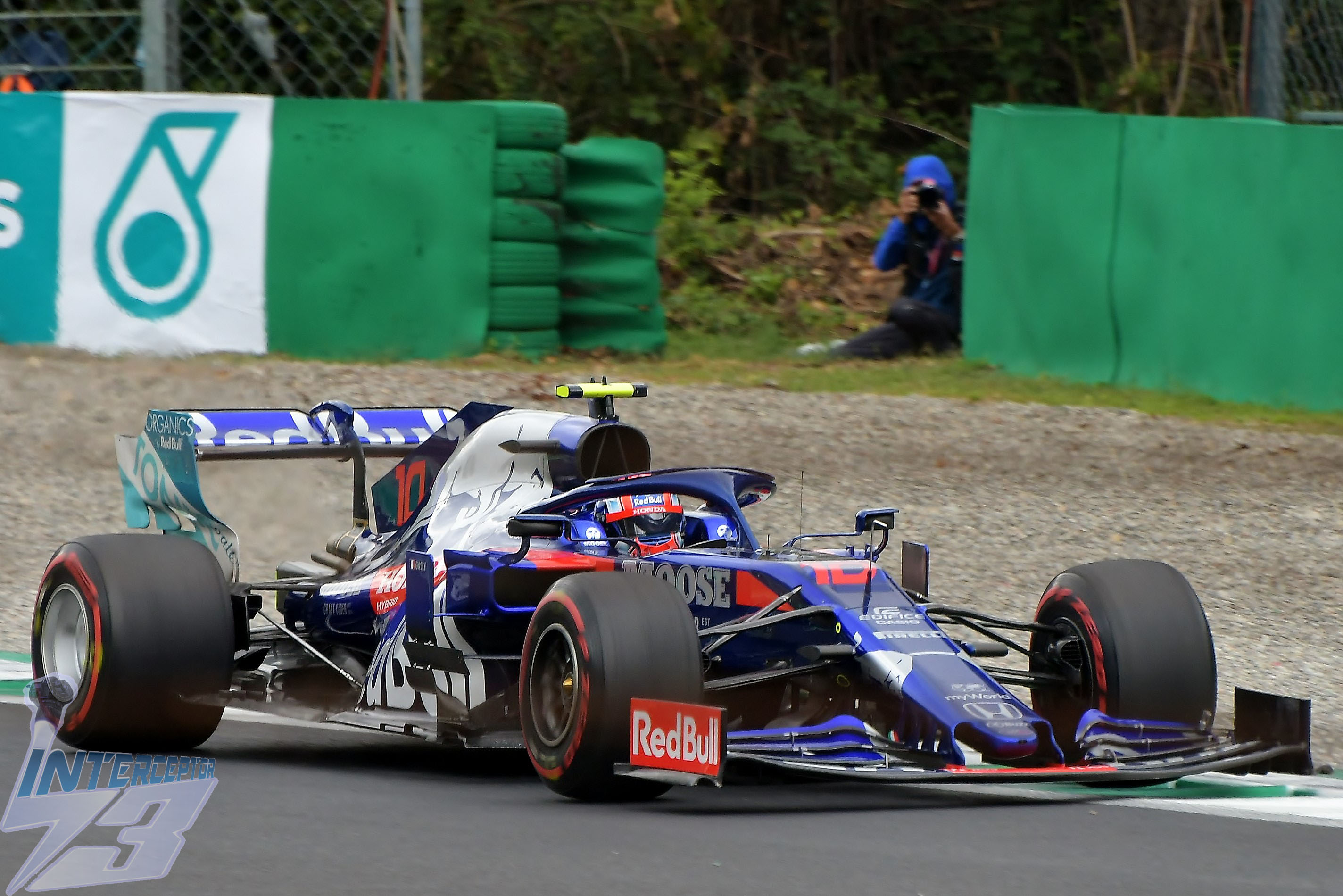 Pierre Gasly, Toro Rosso-Honda STR14, 2019 Italian Grand Prix, Monza, 6th September